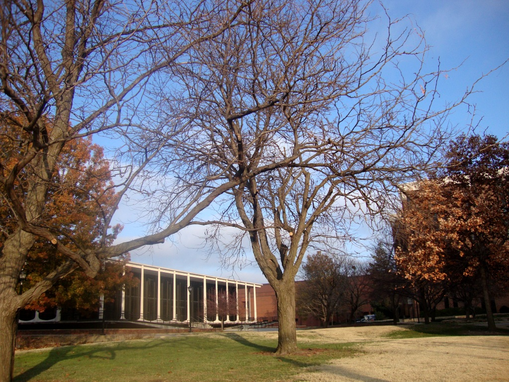 Looking at Hubbard Hall at Wichita State University in the Afternoon. This is just one side of the building, and doesn't reflect how big the building actually is.